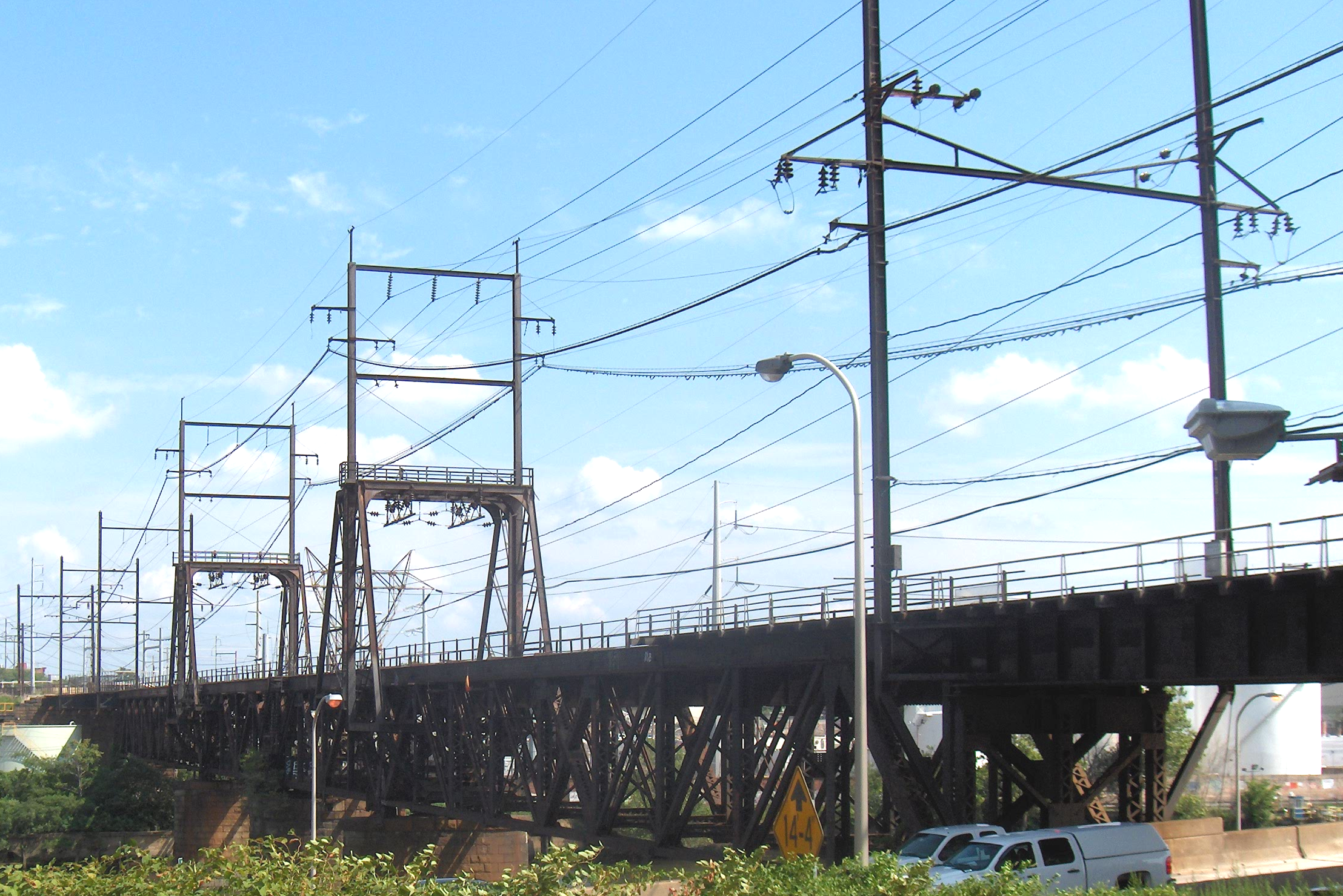 Schuylkill Arsenal Railroad Bridge, built 1885-86 by the Pennsylvania Railroad as a formerly electrified, wrought iron, two track, deck truss, (fixed shut) swing bridge across the Schuylkill River in the University City neighborhood in Philadelphia, Pennsylvania. Now owned by CSX Transportation. Looking east from above the Schuylkill Expressway.